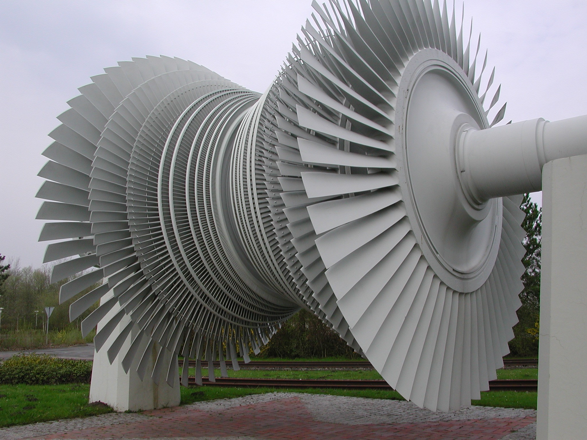 Decommissioned low-pressure turbine rotor from the Weser nuclear power plant.